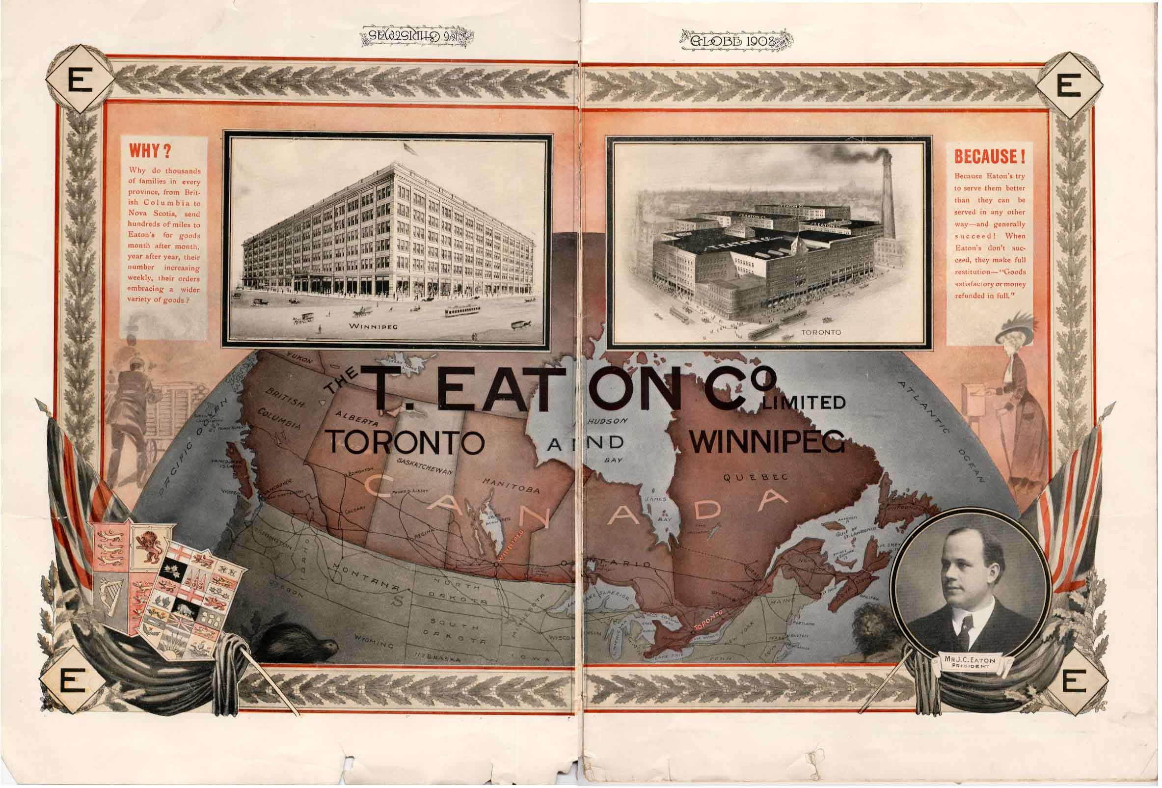 Advertisement in the Christmas edition of the Globe newspaper for the Eaton's Department Store in Canada.